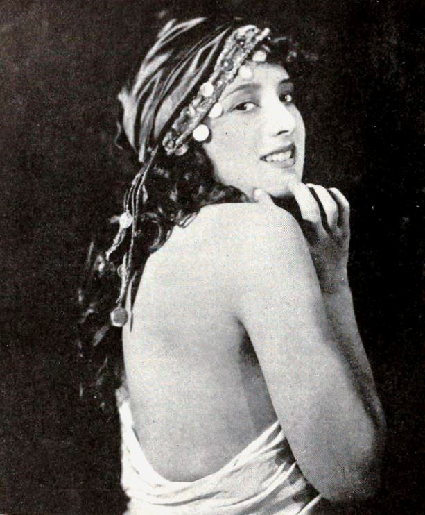 Actress Estelle Taylor, on page 78 of the September 11, 1920 Exhibitors Herald. Still from the American film Blind Wives (1920).